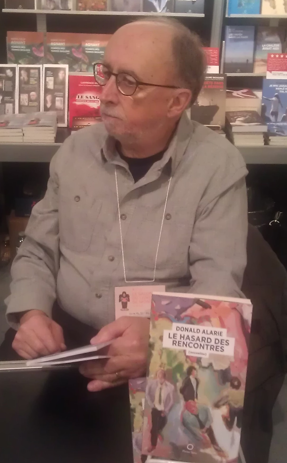 Donald Alarie photographed in Montreal, Quebec, Canada at the Salon du livre de Montréal 2016.